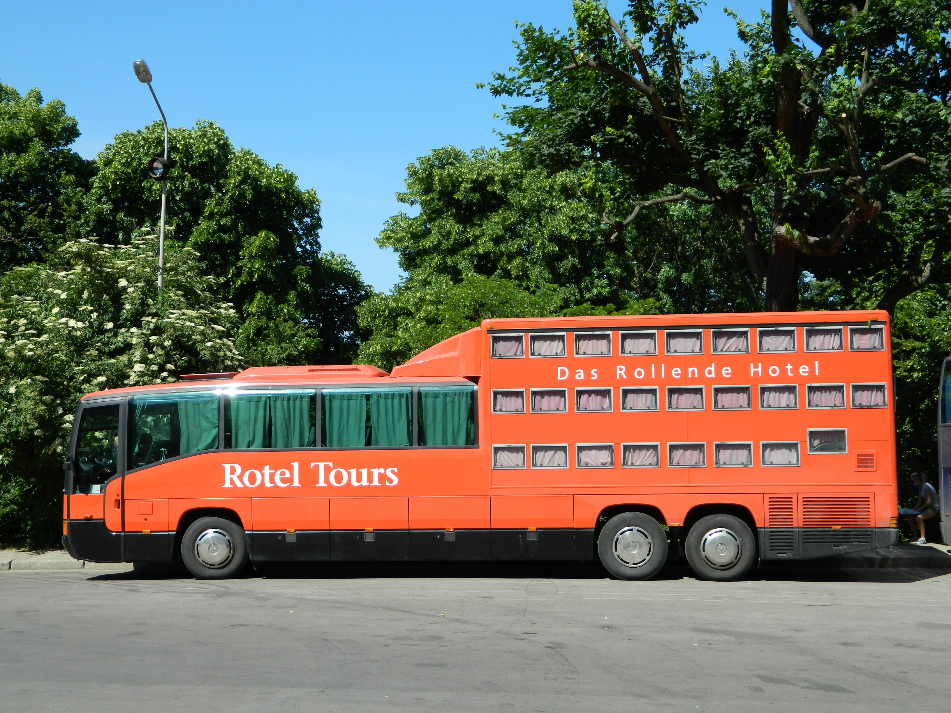 Mercedes-Benz O404-Rotel Tours bus from Germany.